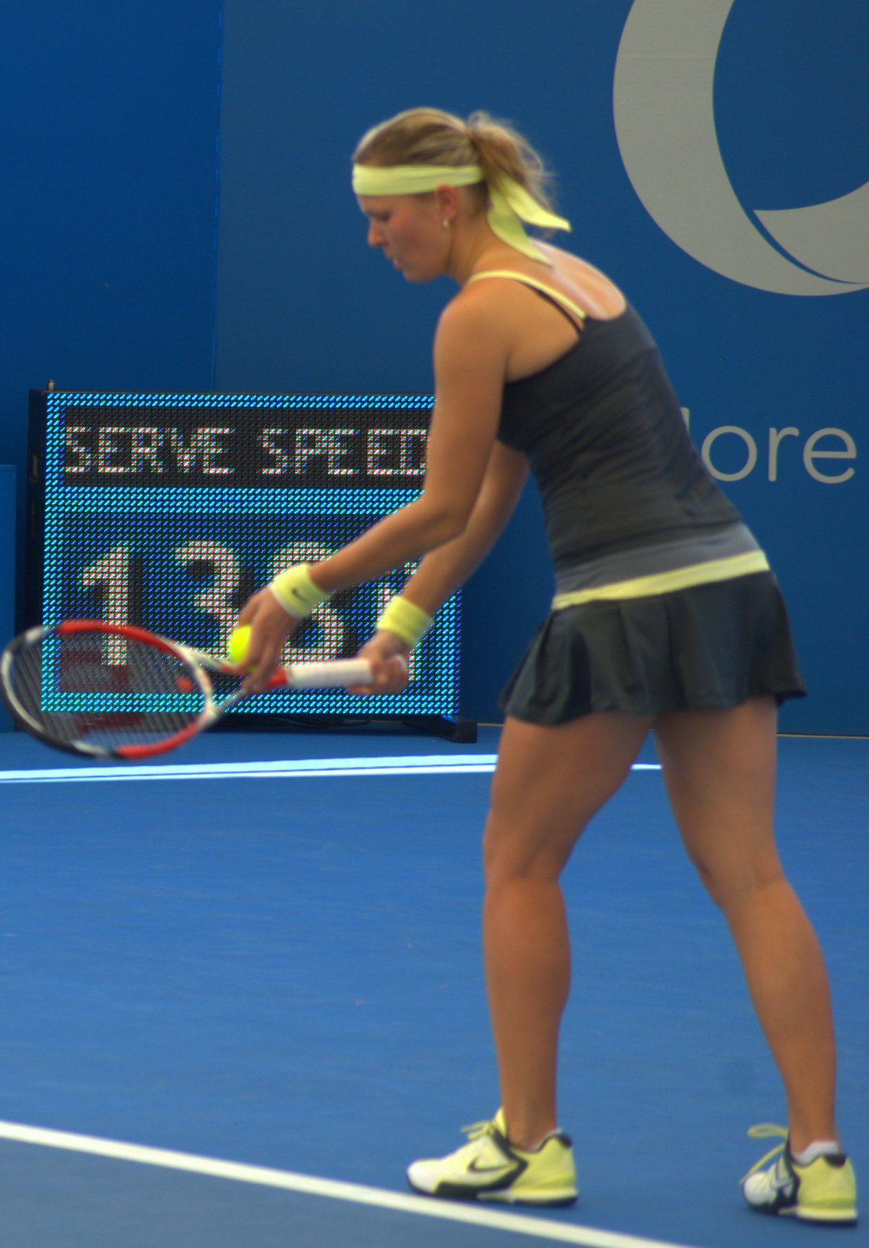 Lucie Hradecká getting ready to serve - lost in 3 sets -Tennis from the Brisbane International 2013